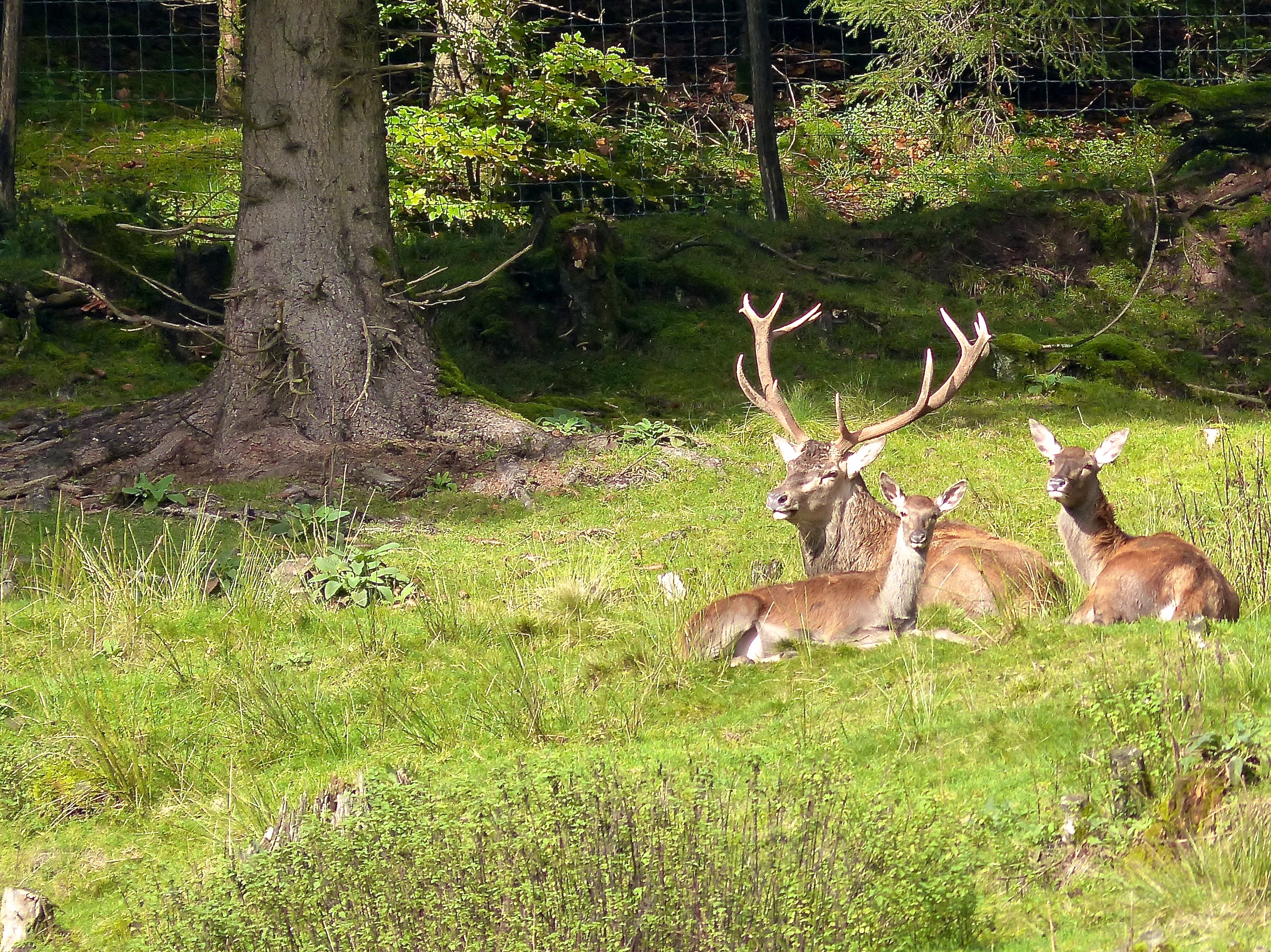 Baiersbronn, Black Forest: Red deer